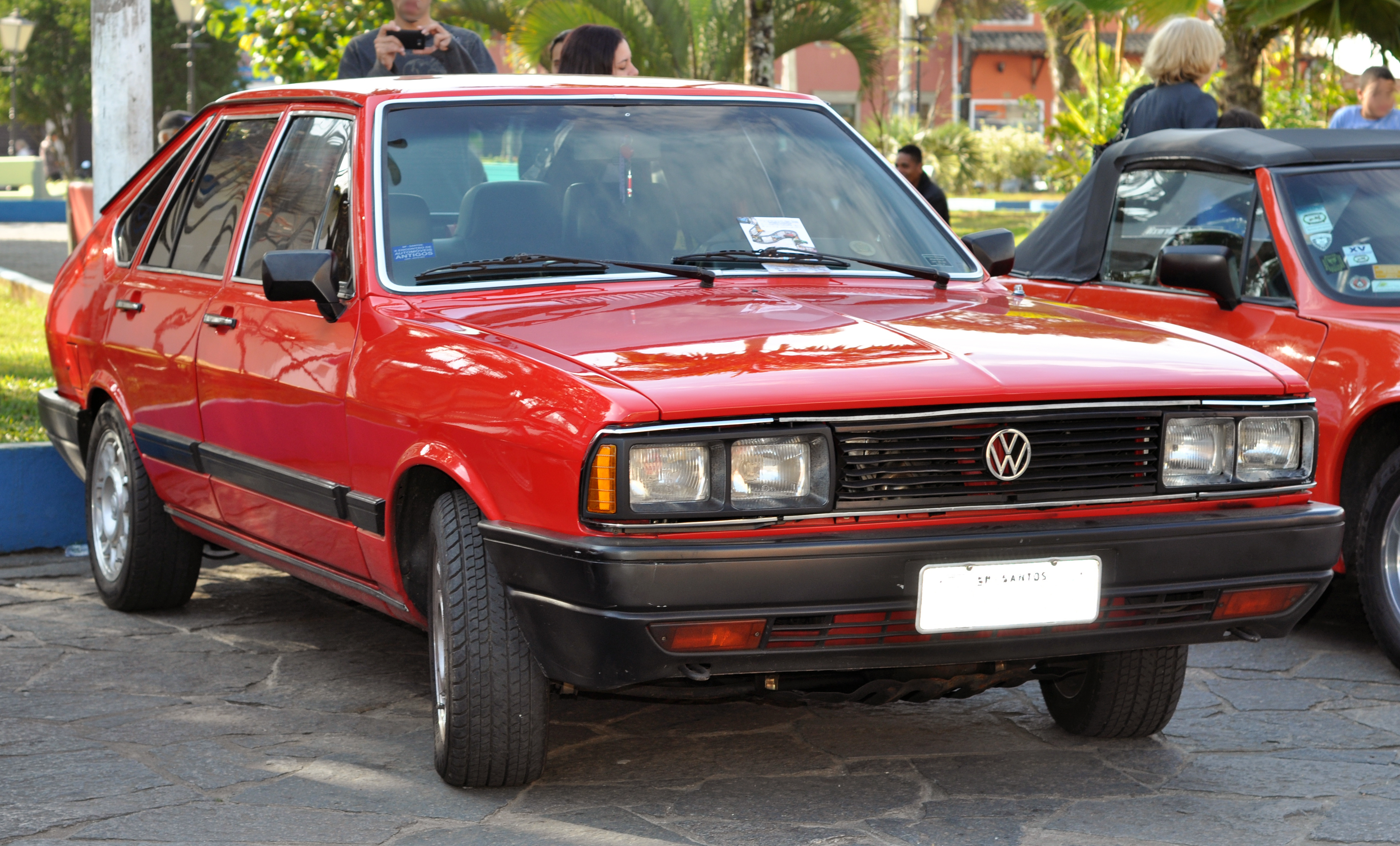 1986-1988 Brazilian-built Volkswagen Passat Village LS or GLS 1.6 at an old car show in Itanhaém, Brazil (SP)